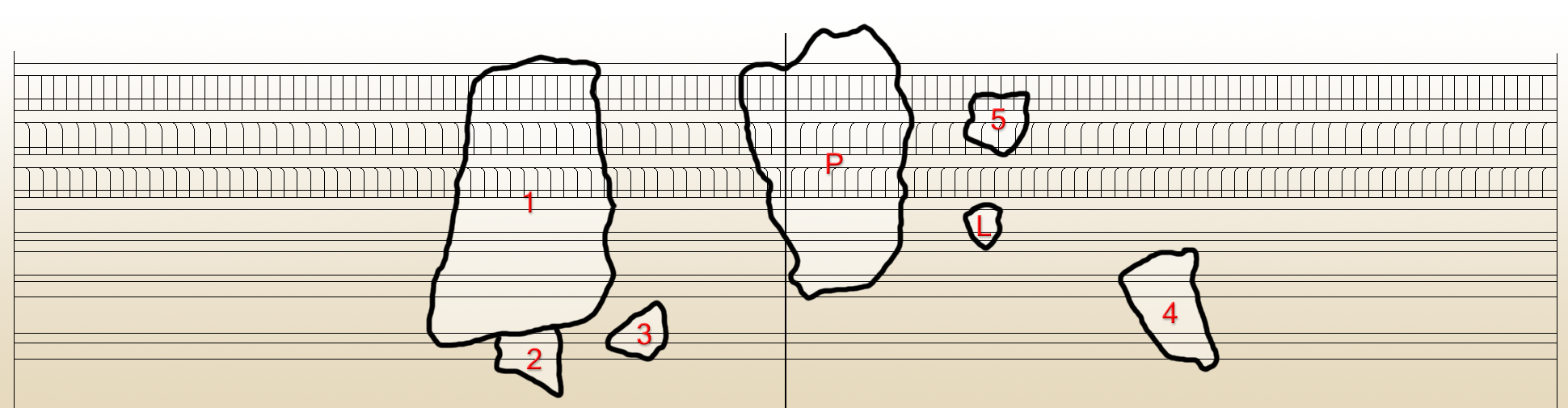 Drawing of the Royal Annals of Egypt with its various fragments including the Palermo Stone (P), the London fragment (L) and the Cairo fragments (1-5).